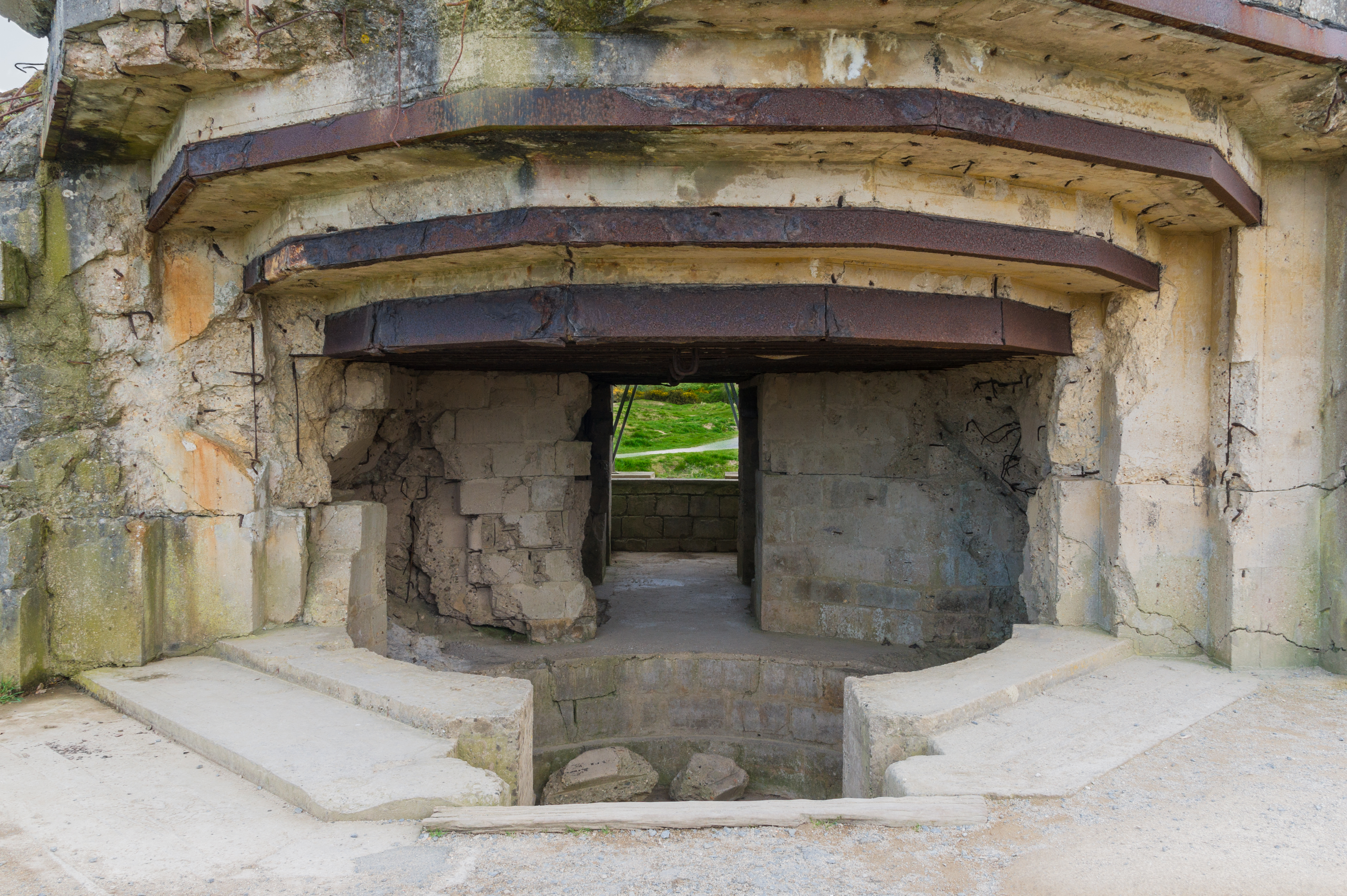 Facing the main german artillery bunker at Pointe du Hoc, Calvados, France